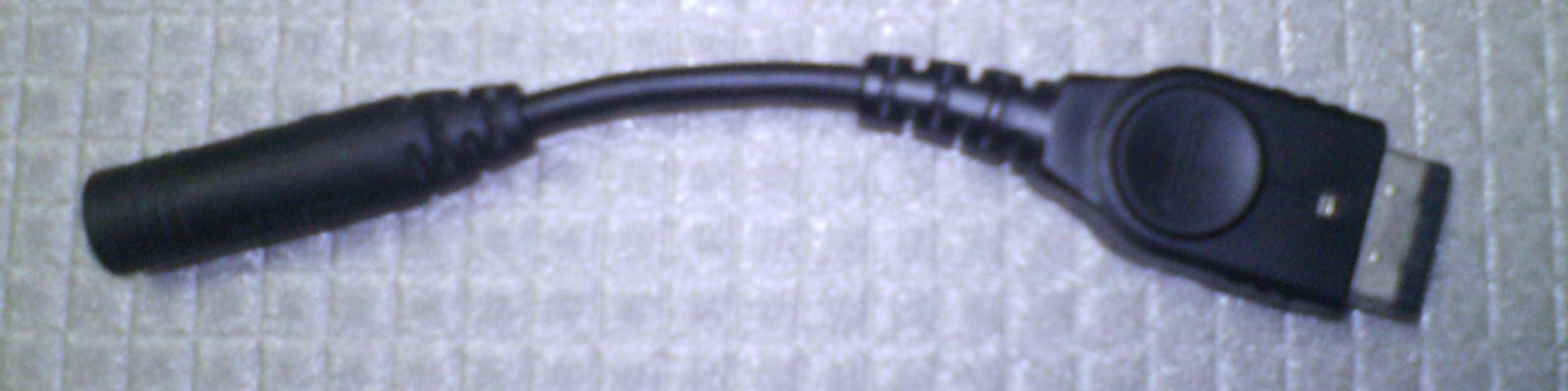 Headphone adapter for Game Boy Advance SP